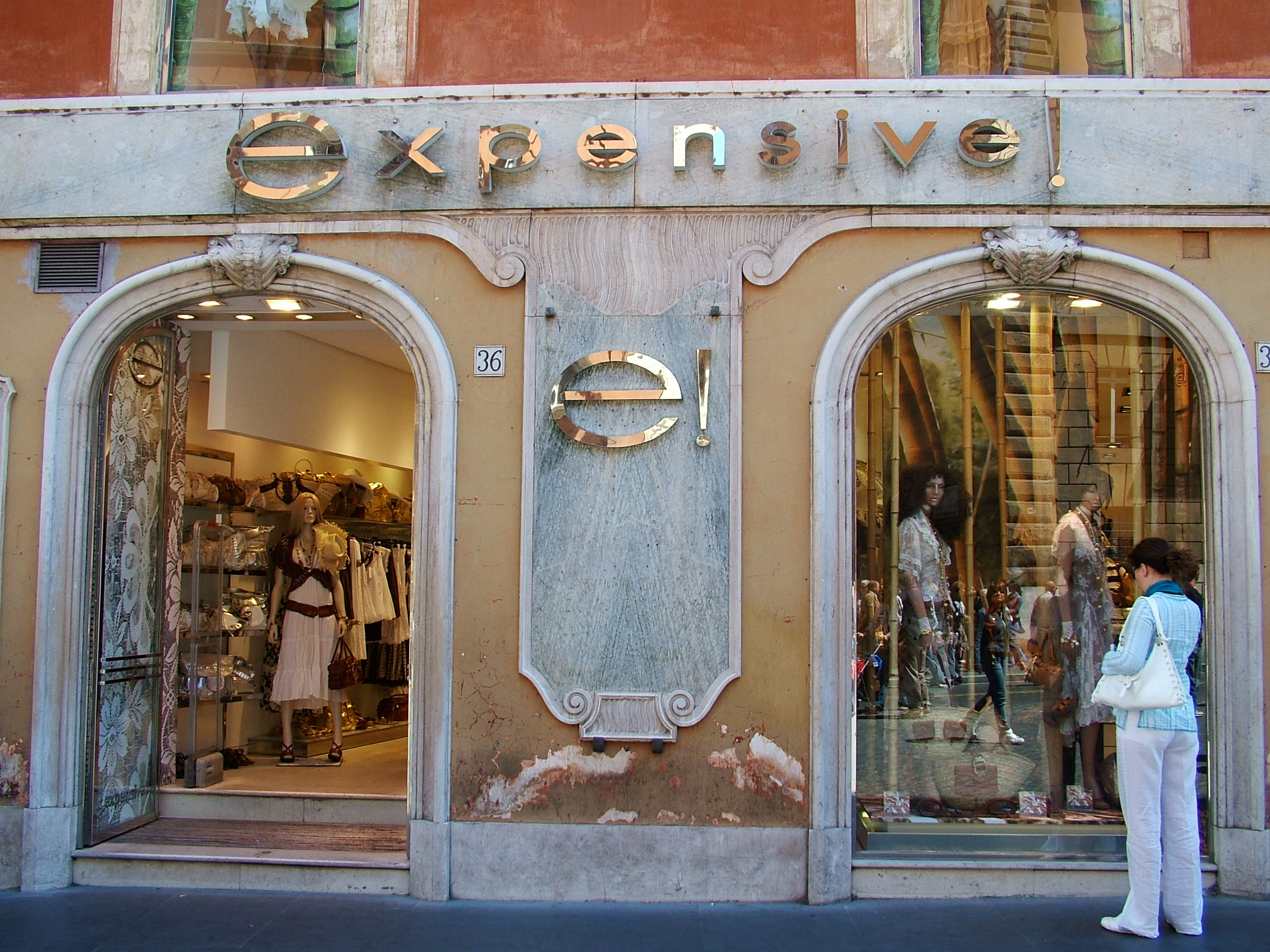 Expensive shop in Rome Photographed by: Per Palmkvist Knudsen